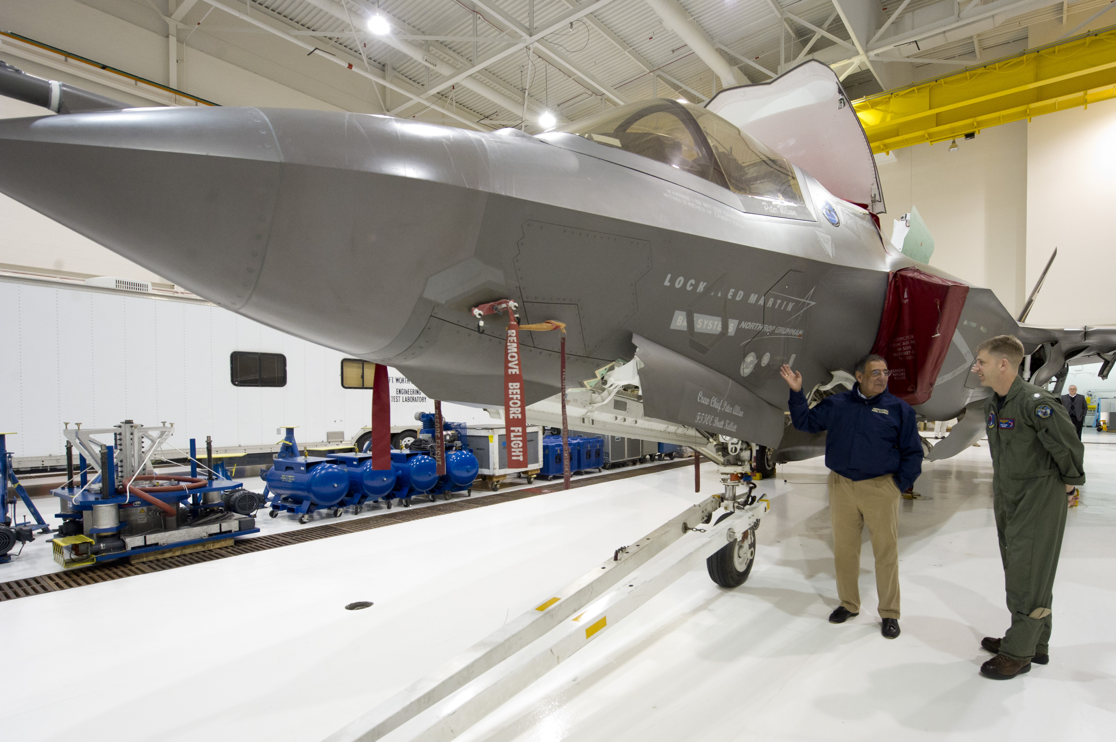 PATUXENT RIVER, Md. (Jan. 20, 2012) Secretary of Defense Leon E. Panetta and Congressman Steny Hoyer (D-Md) are shown the Aircraft Prototype Facility at Naval Air Station Patuxent River, Maryland. Secretary Panetta and Congressman Hoyer toured several facilities related to the F-35 Joint Strike Fighter which is in its test phases at Pax River. (DoD Photo by Erin A. Kirk-Cuomo/Released)